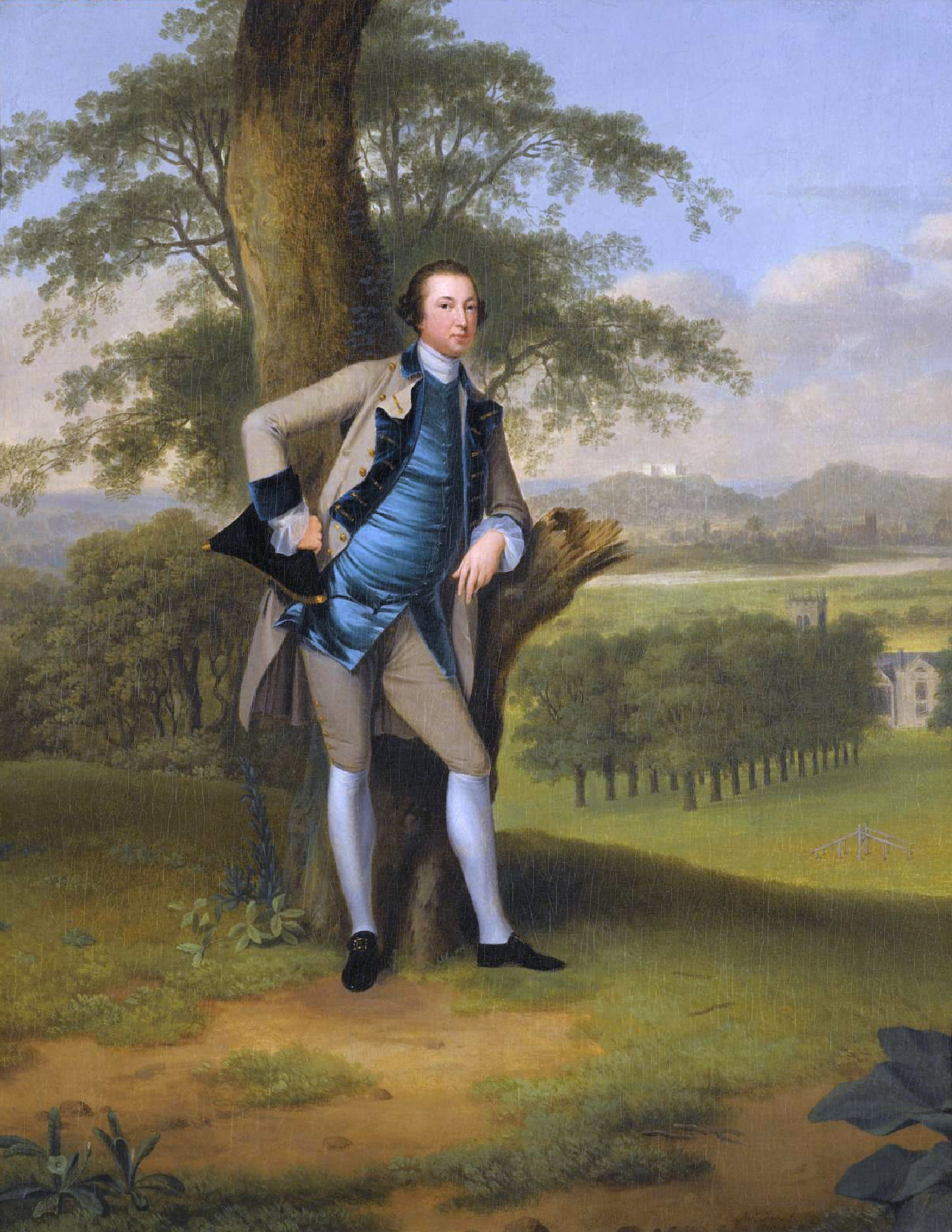 Robert Manners-Sutton (1722-1762) oil on canvas 65 x 51 cm signed l.r.: Art Devis Fe